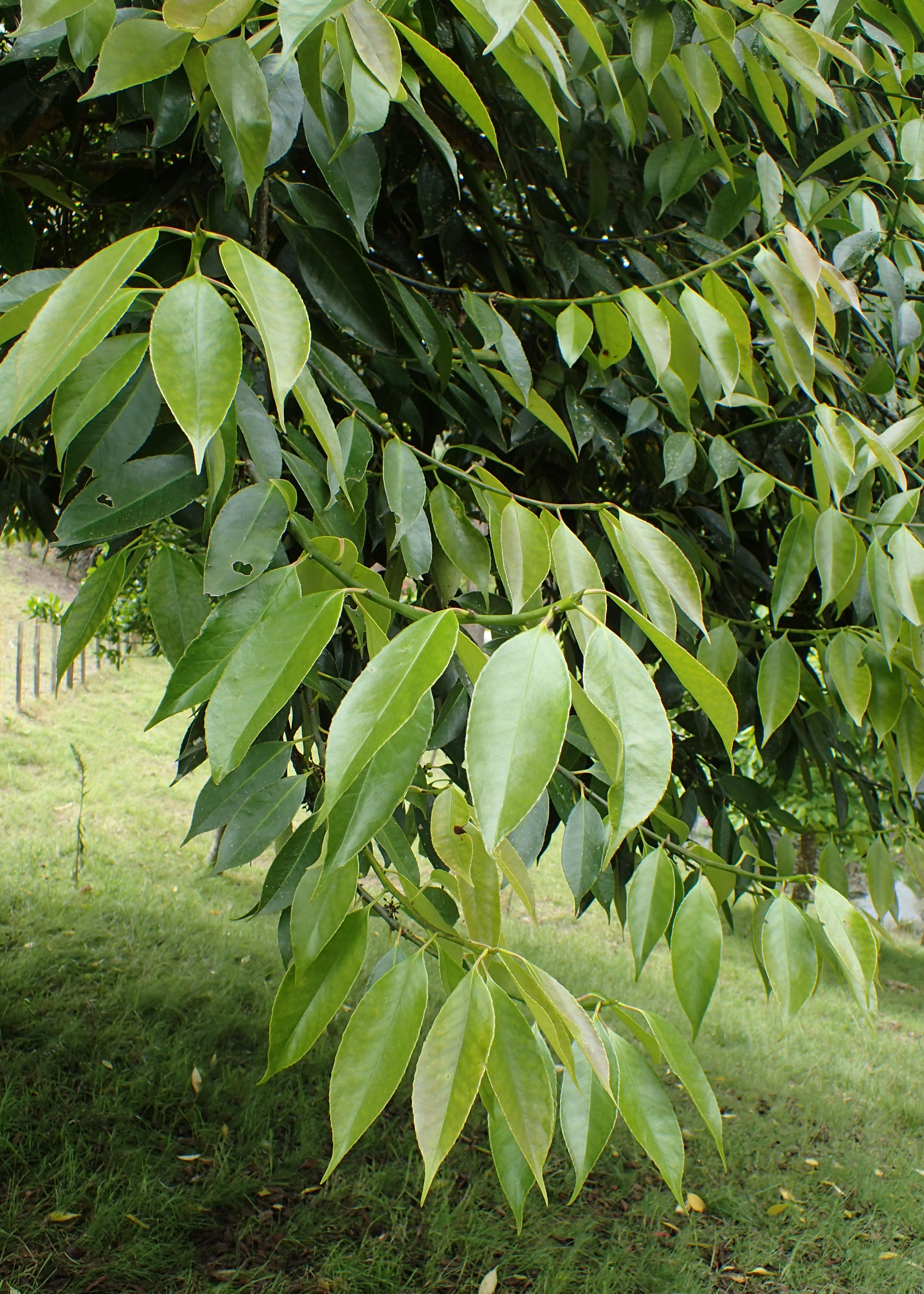 Ilex fargesii in Hackfalls Arboretum, Hawkes's Bay, NZ